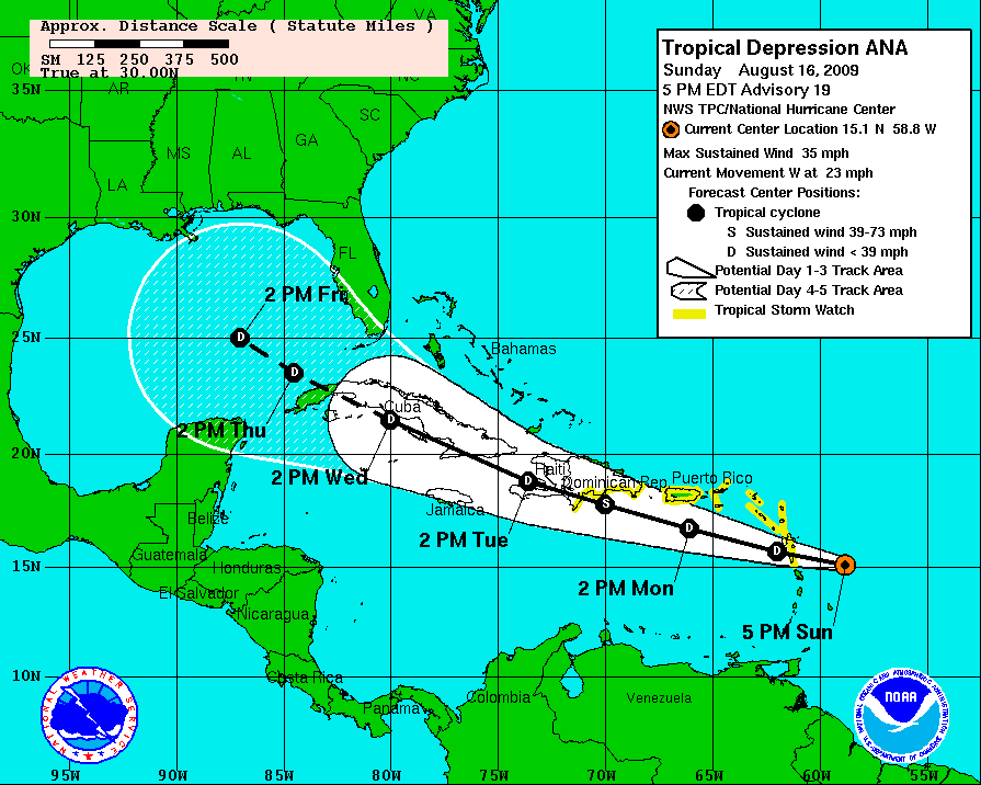 Five-Day forecast track for Tropical Depression Ana according to the 23rd advisory on the system